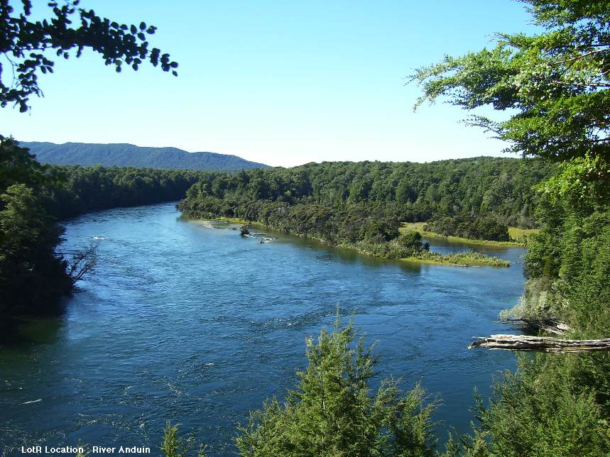 the Lord of the Rings View Point ("Andiun Reach") on the Proposed Manapouri-Te Anau Cycle trail, Upper Waiau River New Zealand.